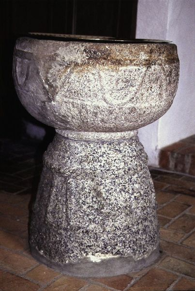 Albæk Church in Frederikshavn Kommune from apr. 1100